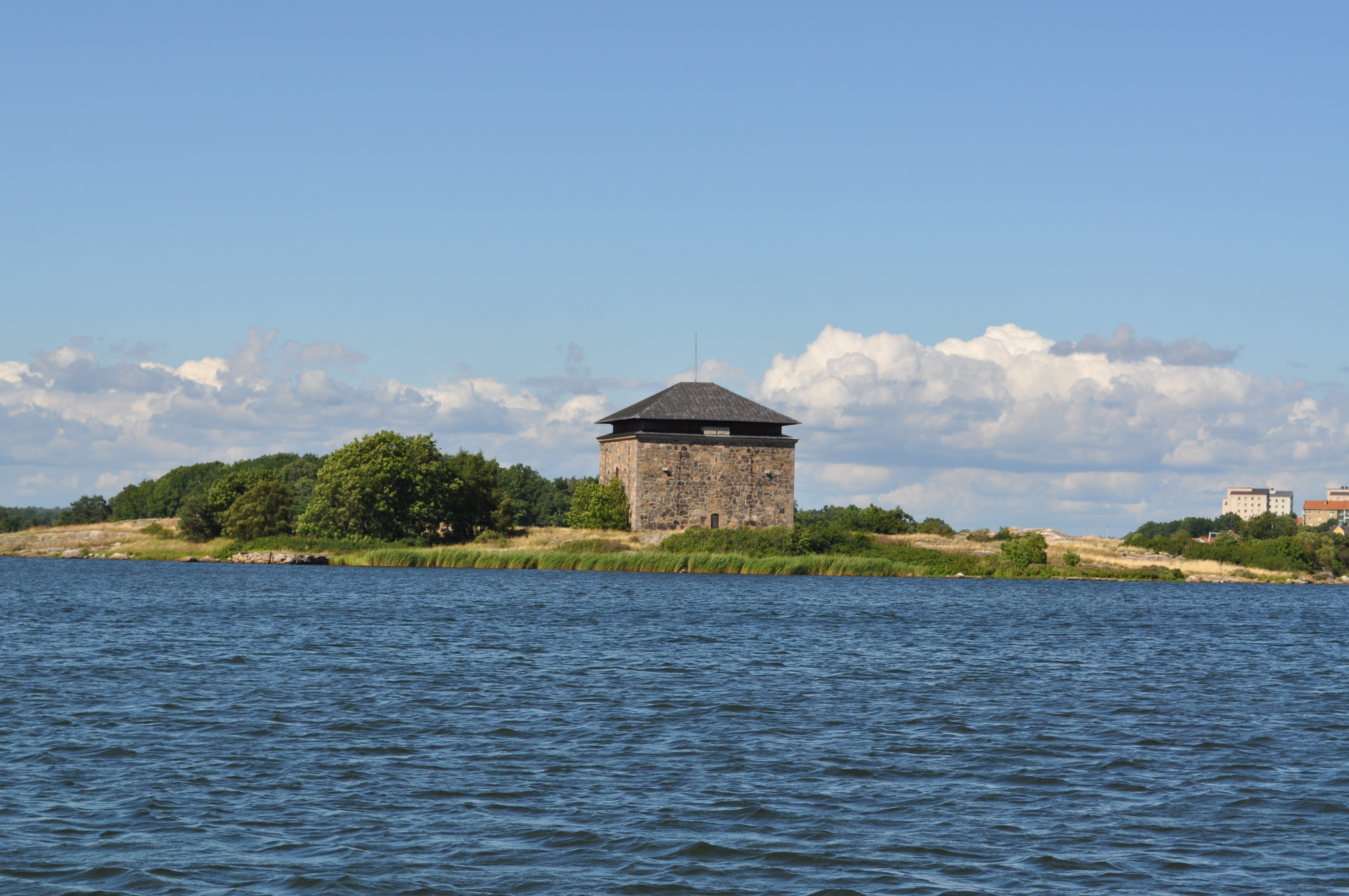 The gunpowder magazines build in granit, Borgmästarfjärden - Västra kruthuset, karlskrona.